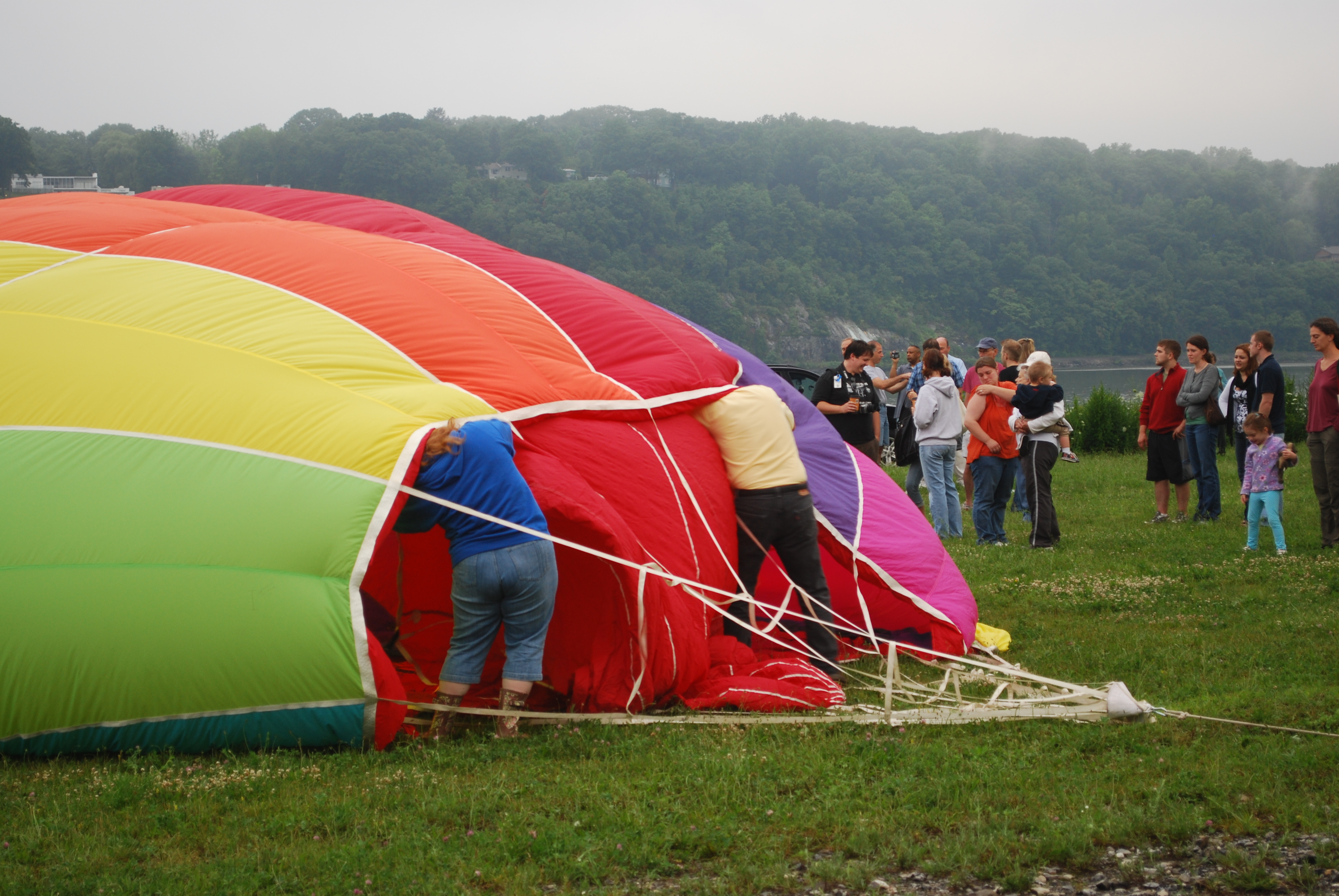 Setting up a hot air balloon on the bank of the Hudson River in Poughkeepsie, NY